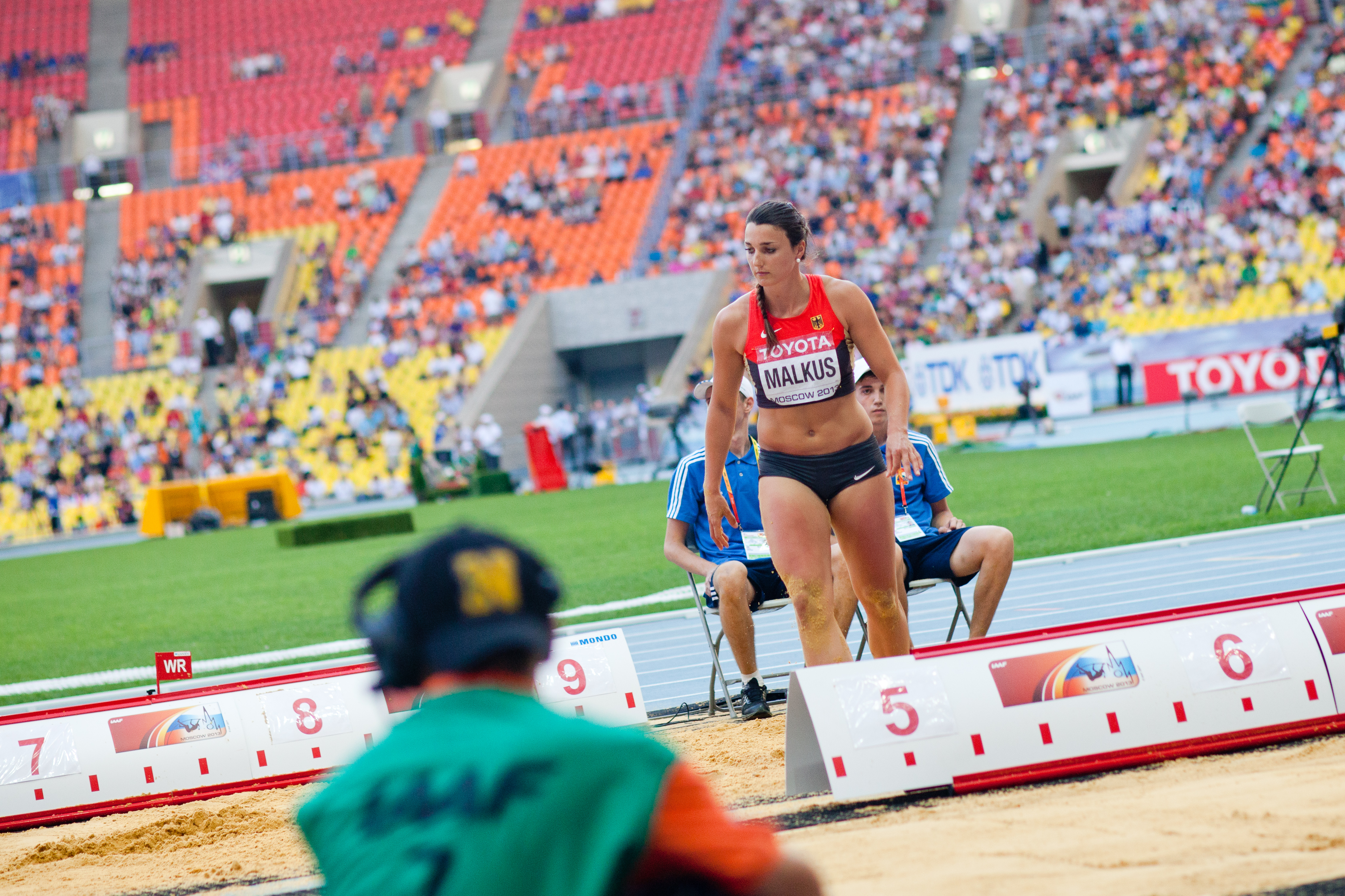 Lena Malkus during 2013 World Championships in Athletics in Moscow.